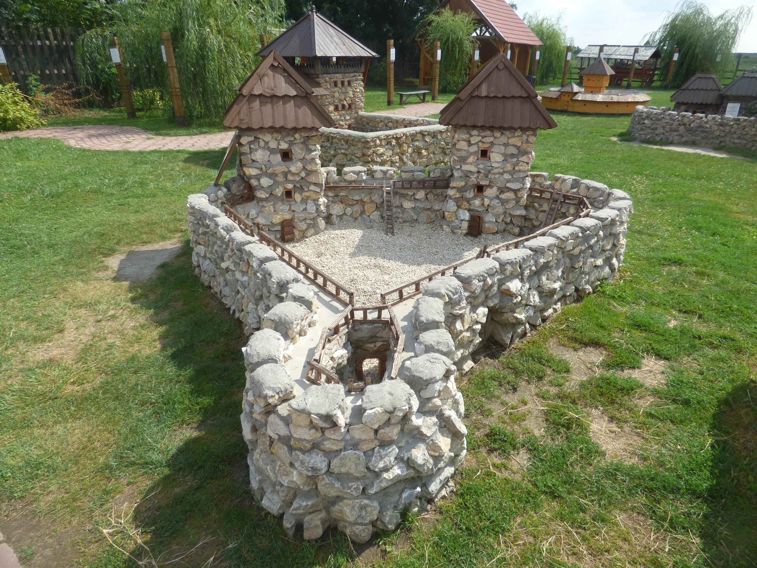 Kosztajnica makettje a dinnyési Várparkban